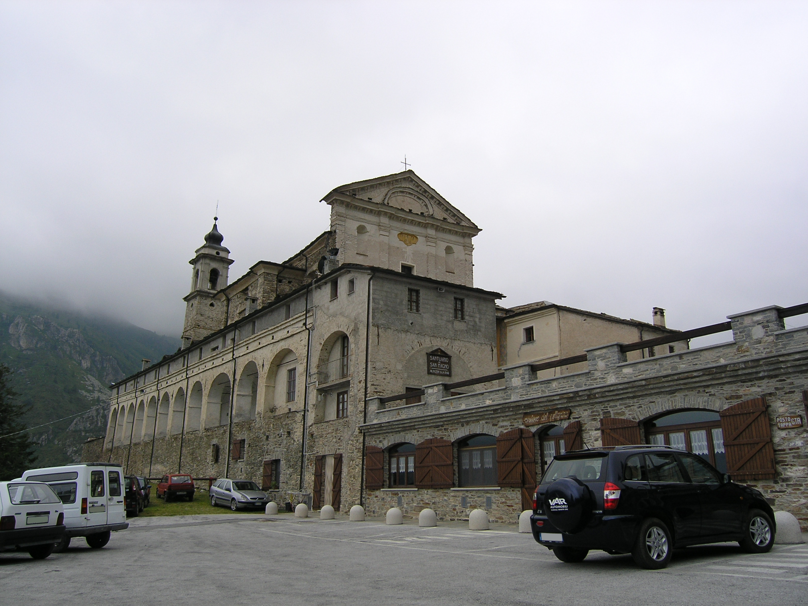 Saint Magnus sanctuary at Castelmagno (Italy)